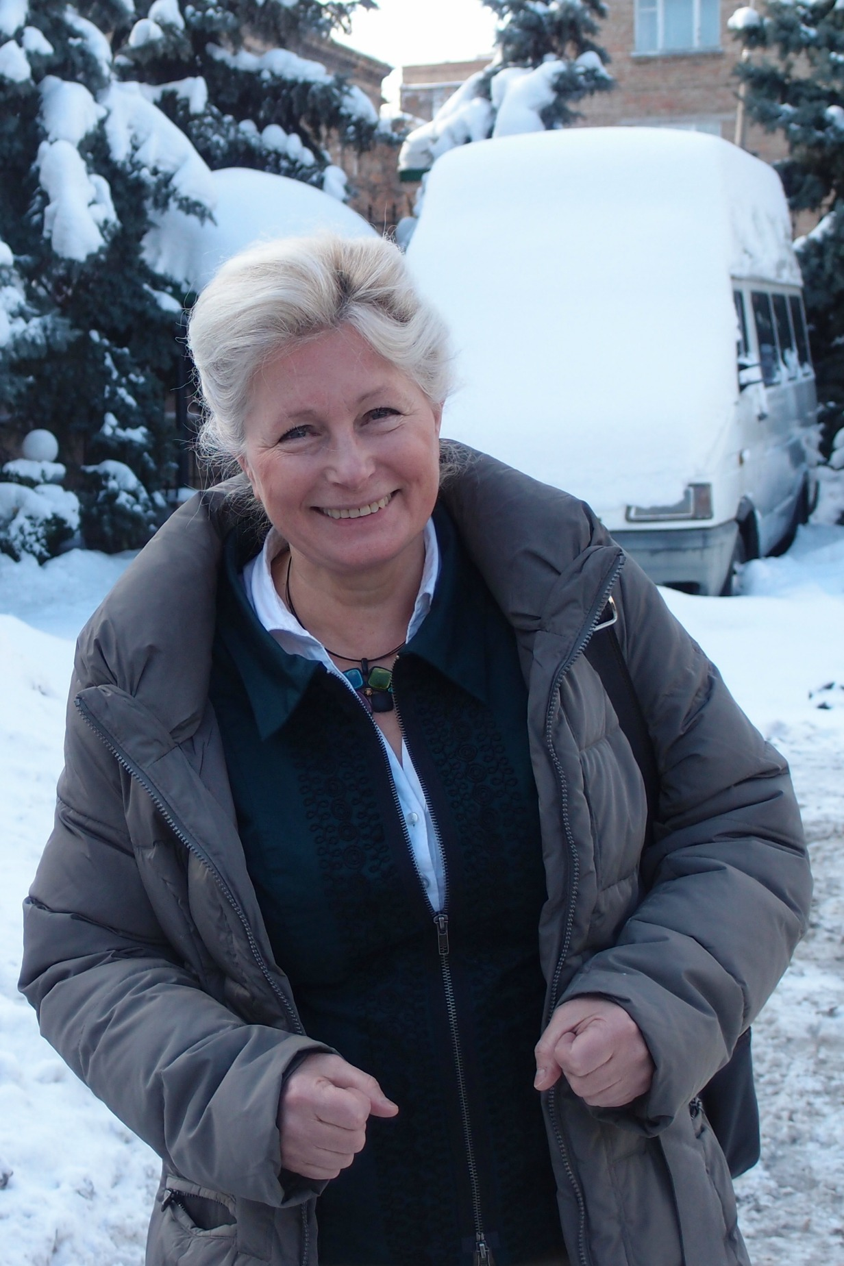 Candidate for Czech President, MEP Zuzana Roithova